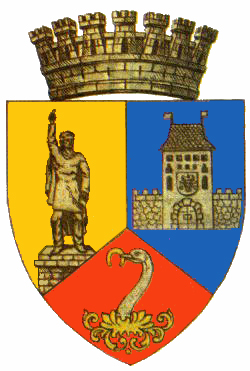 Coat of arms of Bistrița, Bistrița-Năsăud County, Romania.